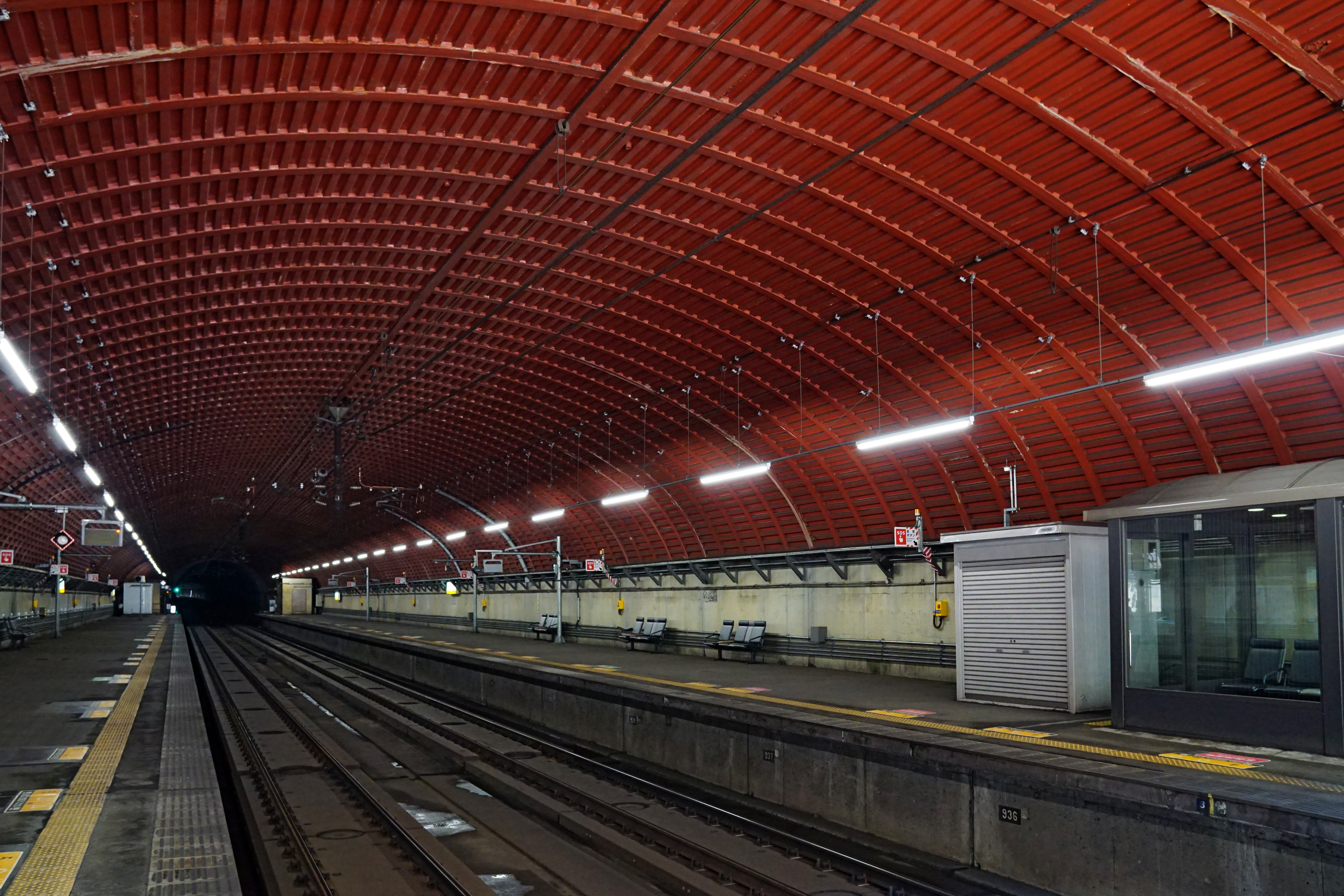 Takedao Station in Takarazuka, Hyogo prefecture, Japan.